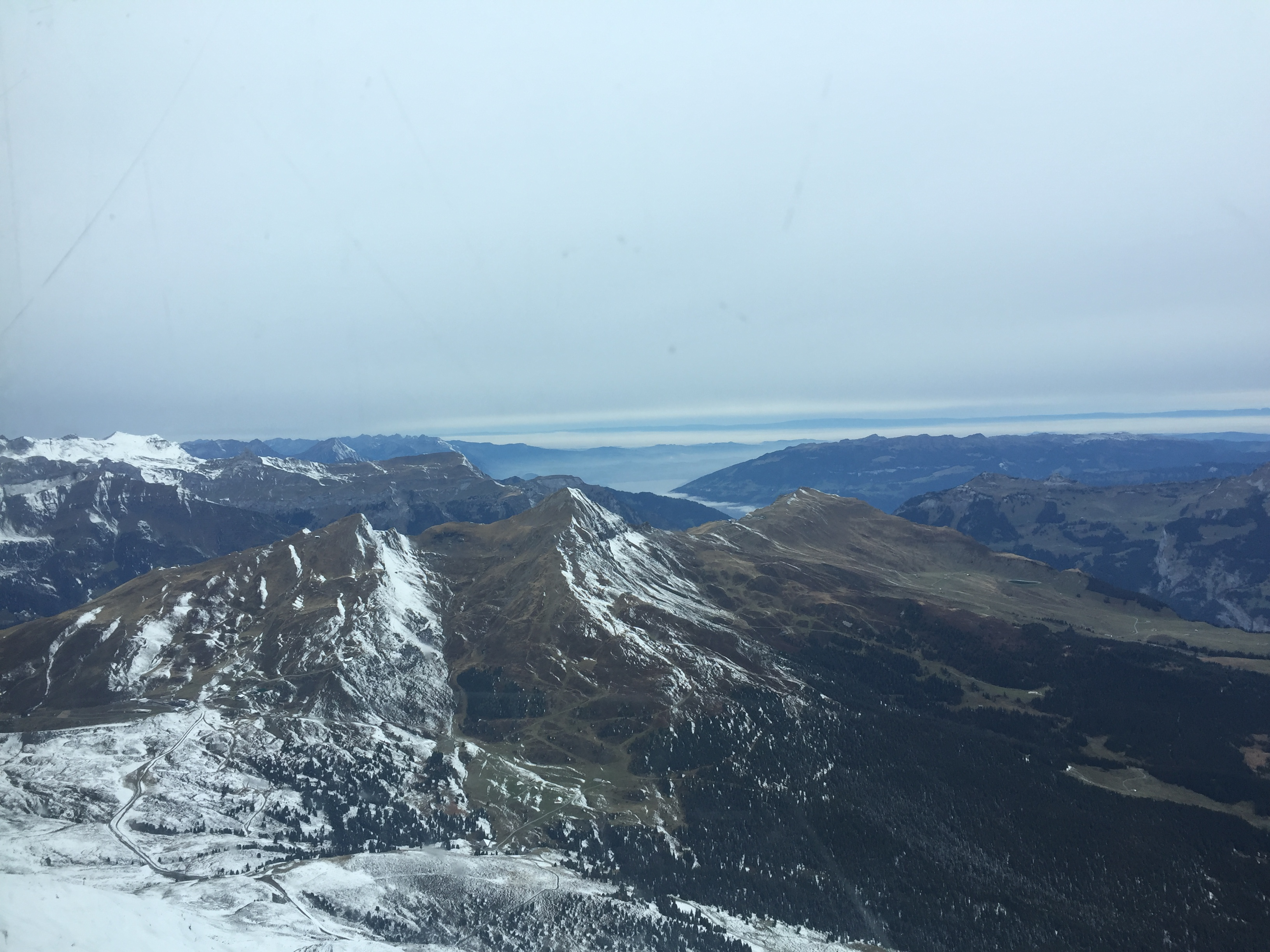 Jungfraujoch view from the top